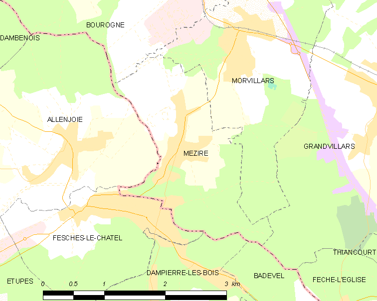 Map of French municipality Méziré